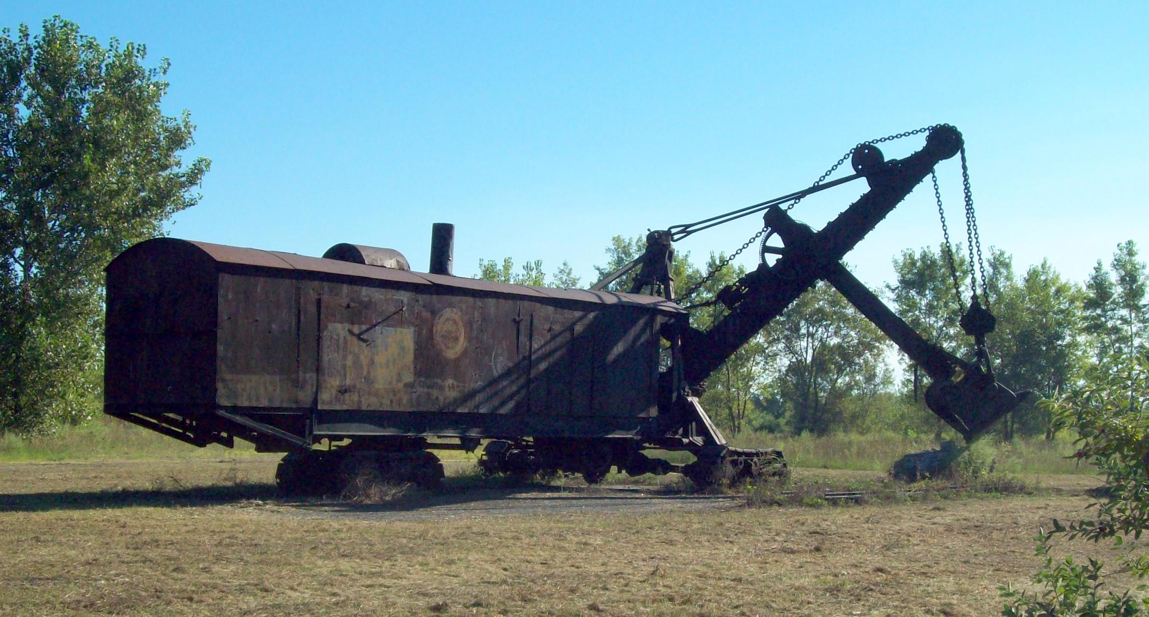 Marion Steam Shovel, Le Roy NY, August 2010